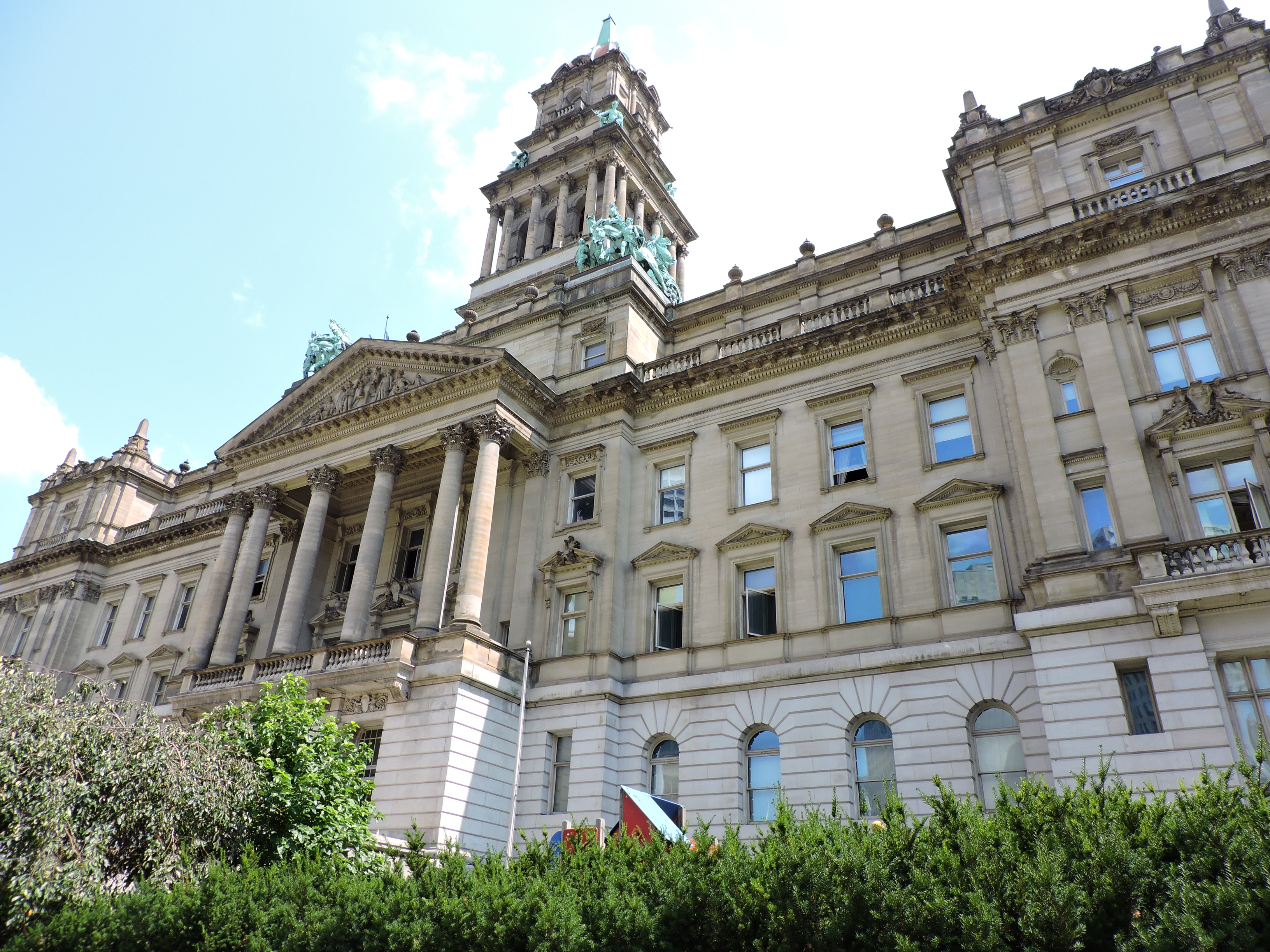 Downtown, Detroit, MI, USA